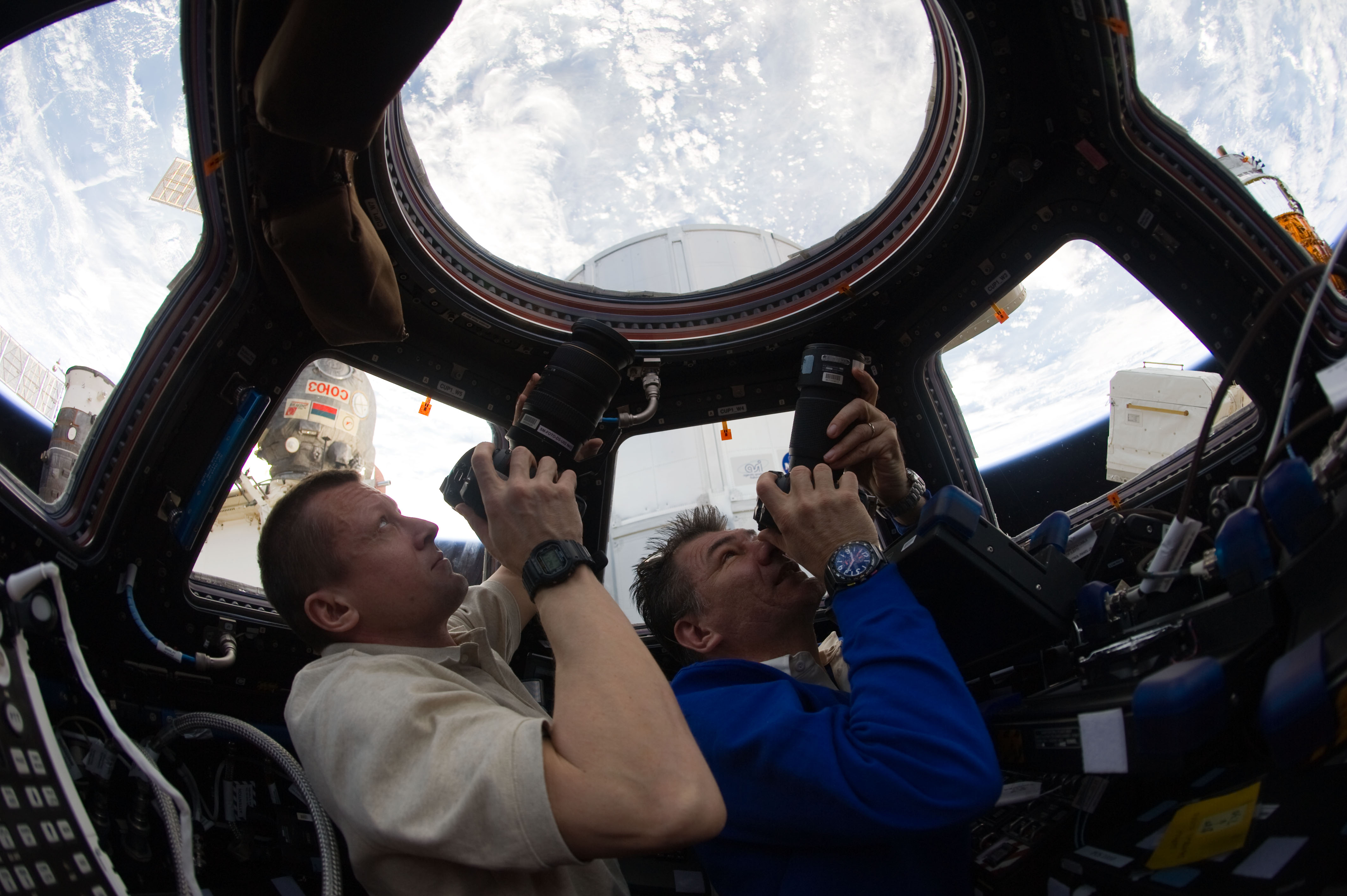 Russian cosmonaut Dmitri Kondratyev (left), Expedition 27 commander; and Italian Space Agency/European Space Agency astronaut Paolo Nespoli in the Cupola, use still cameras to photograph the topography of points on Earth. Picture taken by 3rd crew member, Cady Coleman. From left to right outside the cupola Progress M-09M, Soyuz TMA-20, the Leonardo module and Kounotori 2.